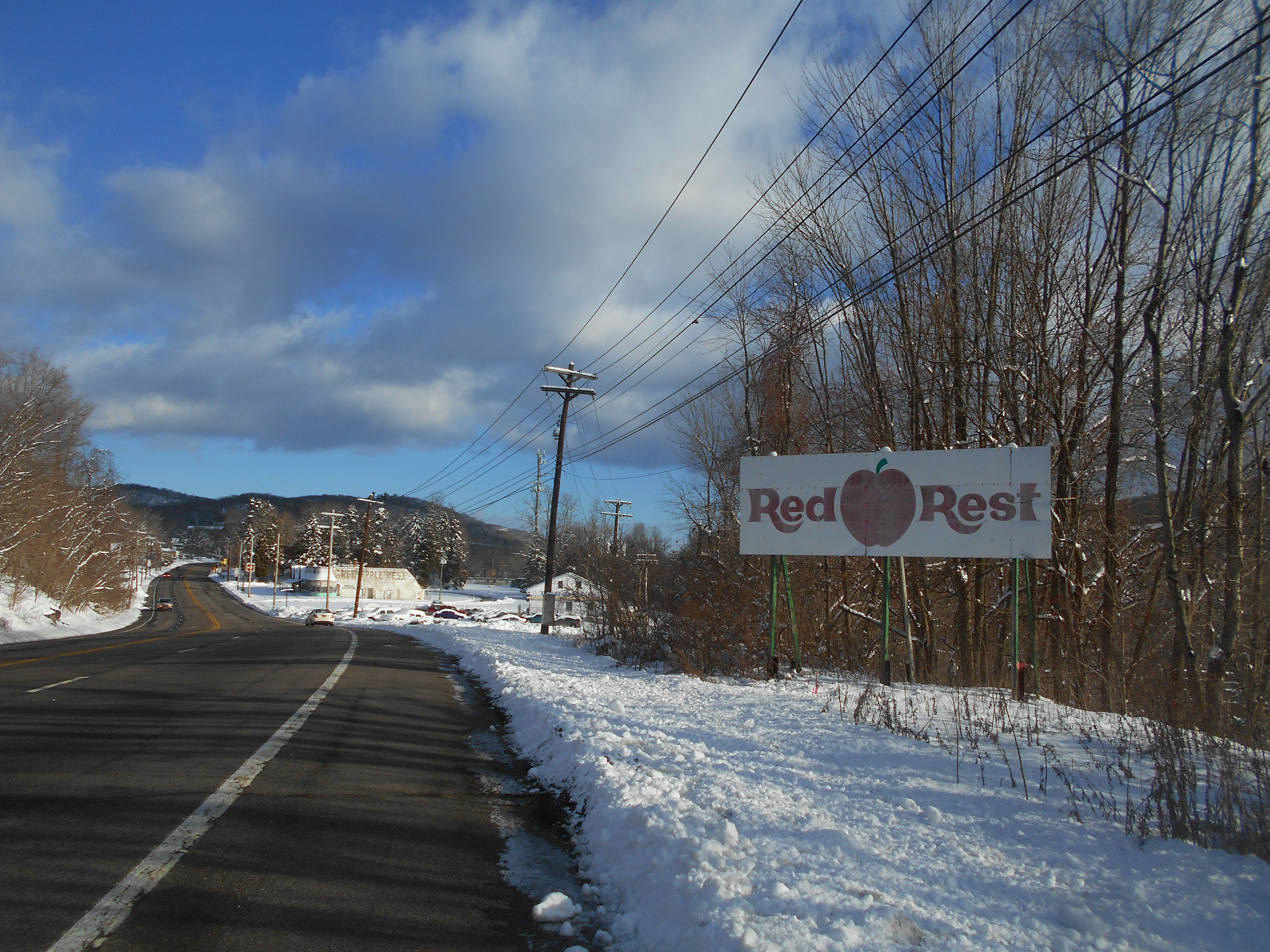 The former Red Apple Rest signage in Southfields, Tuxedo, New York next to New York State Route 17.